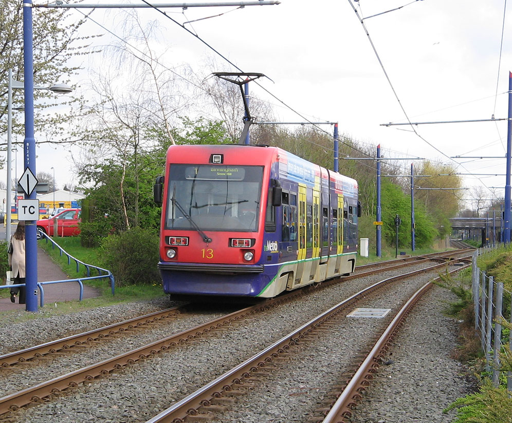 A Midland Metro tram running off-road away from West Bromwich station towards Birmingham. Photo by G-Man April 2005